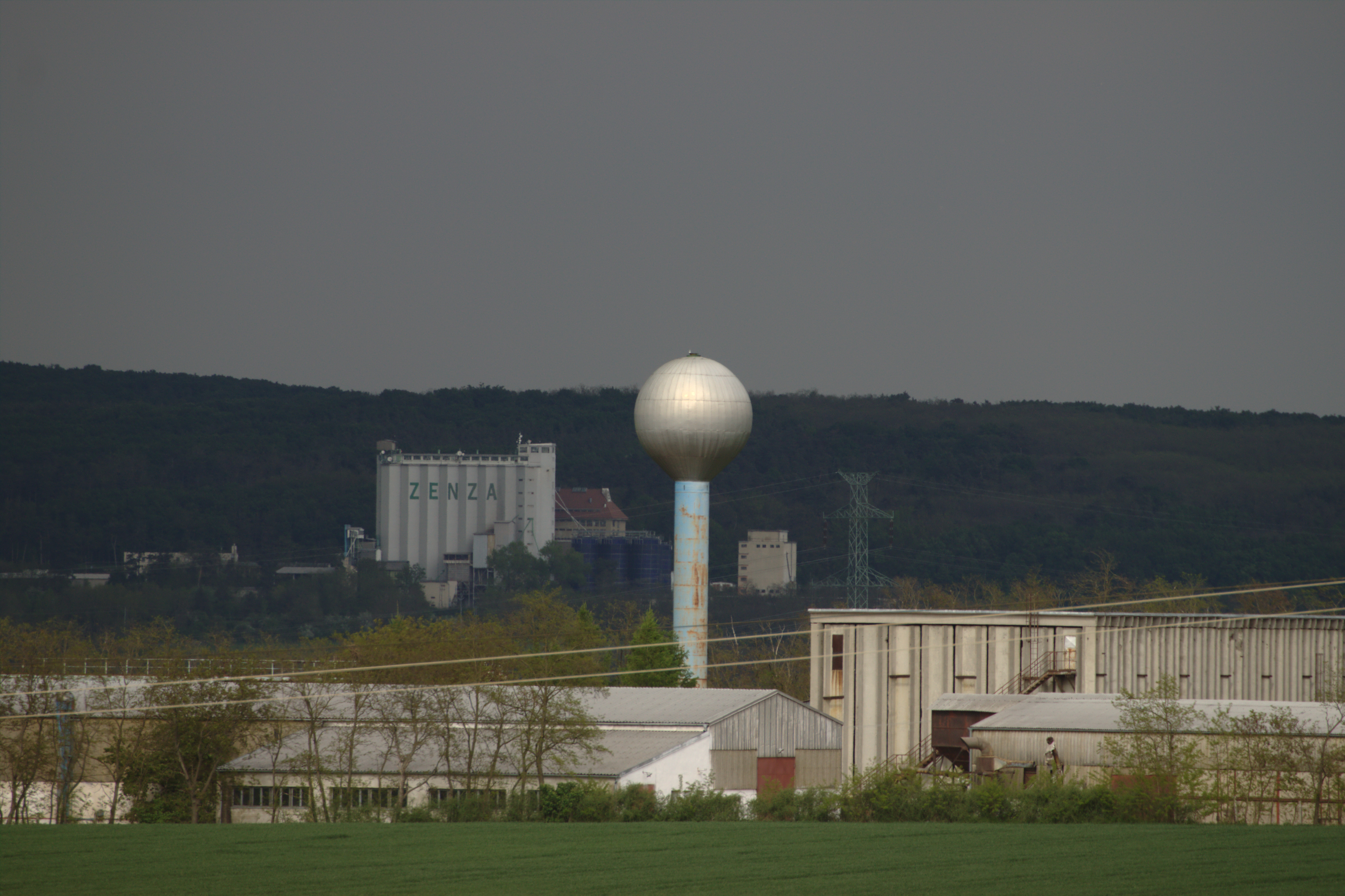 Industrial area in the village of Petrovice, South Moravian Region, CZ